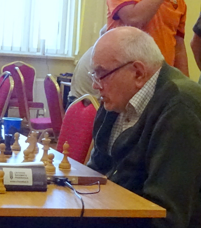 Lithuanian chess player